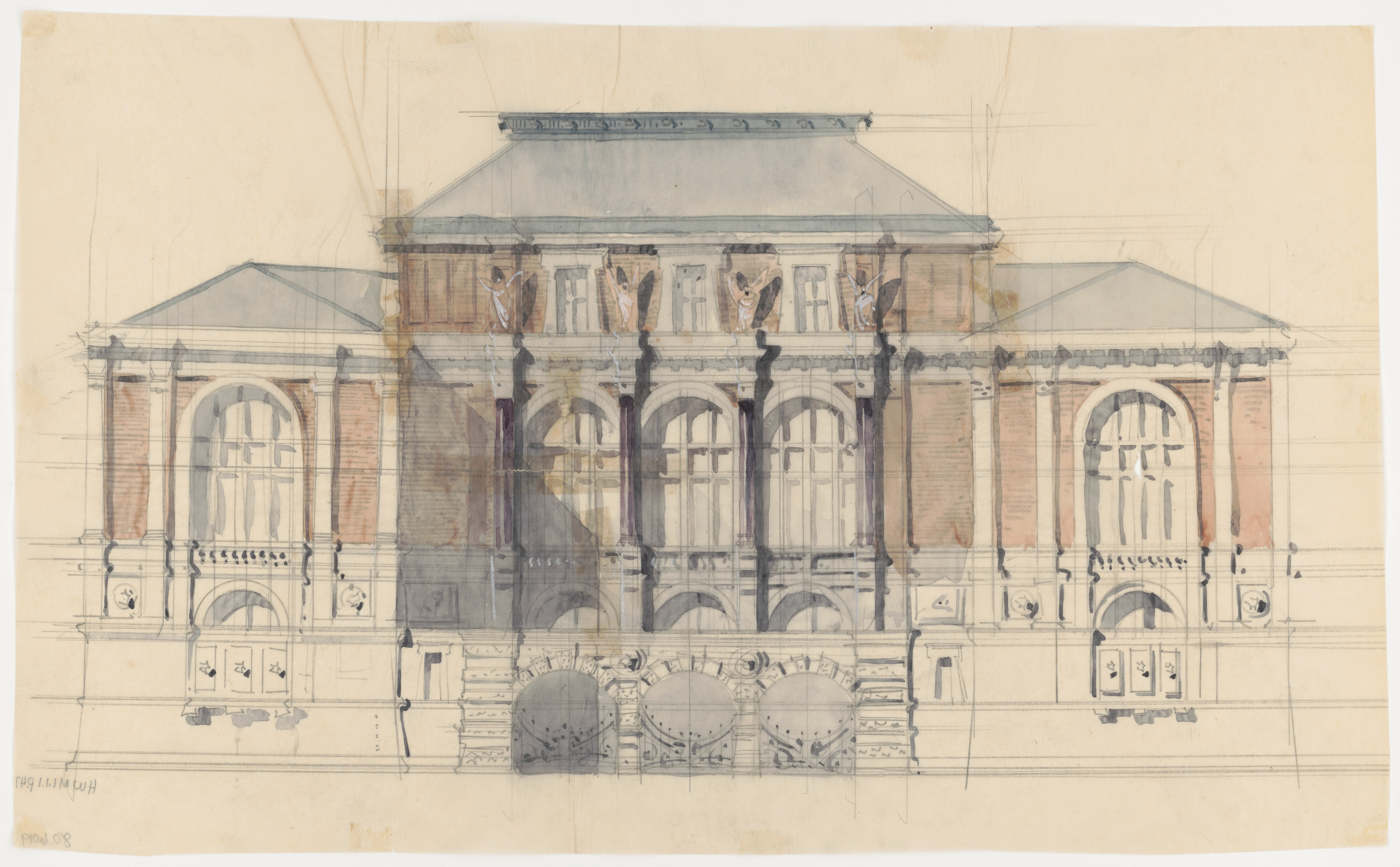 Title: Lenox Library, New York, New York. Elevation Abstract/medium: 1 drawing : watercolor and graphite on tracing paper ; sheet 28 x 47 cm.